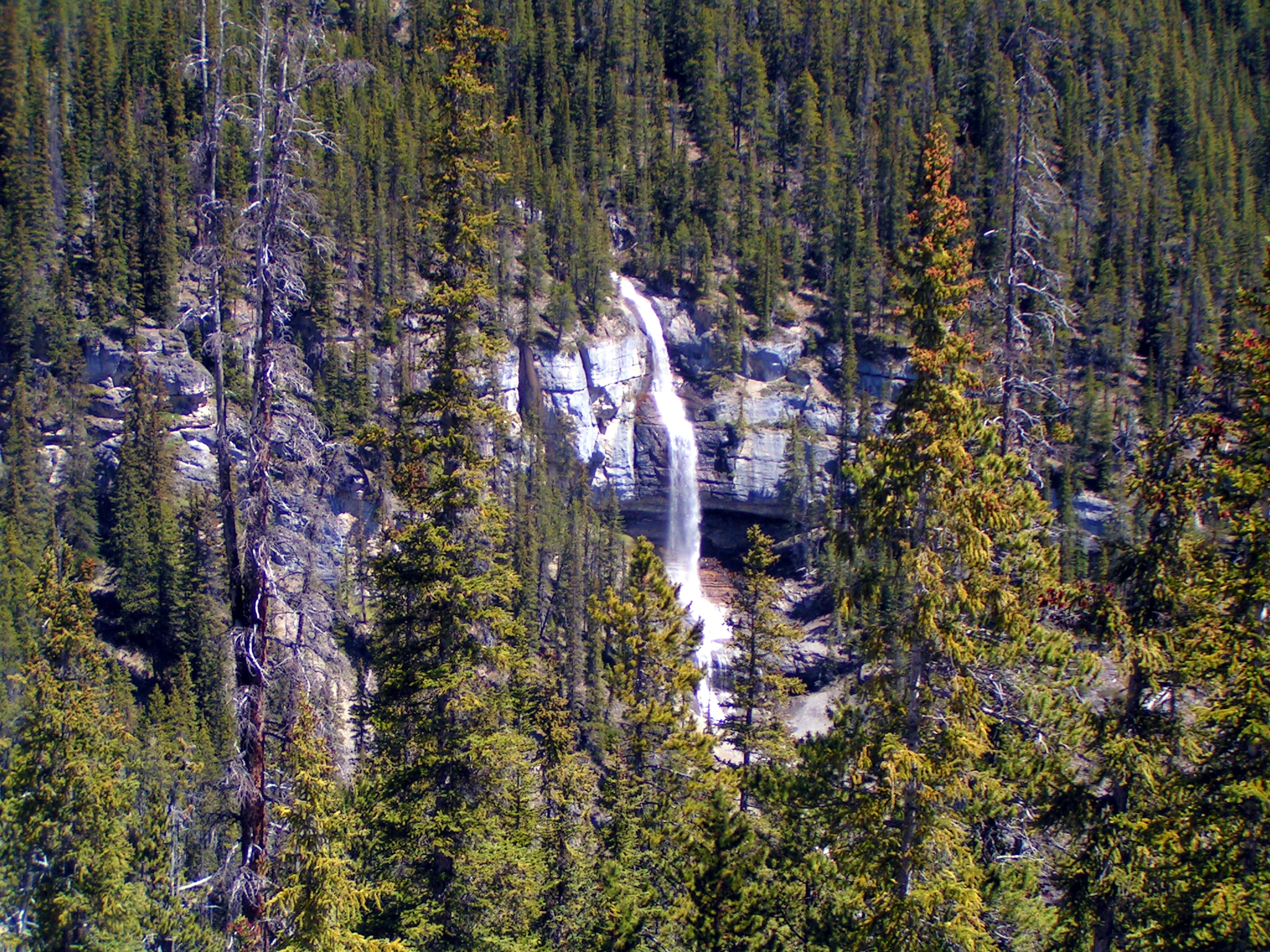 Bridal Veil waterfall in Banff National Parks, seen from the Icefield Parkway